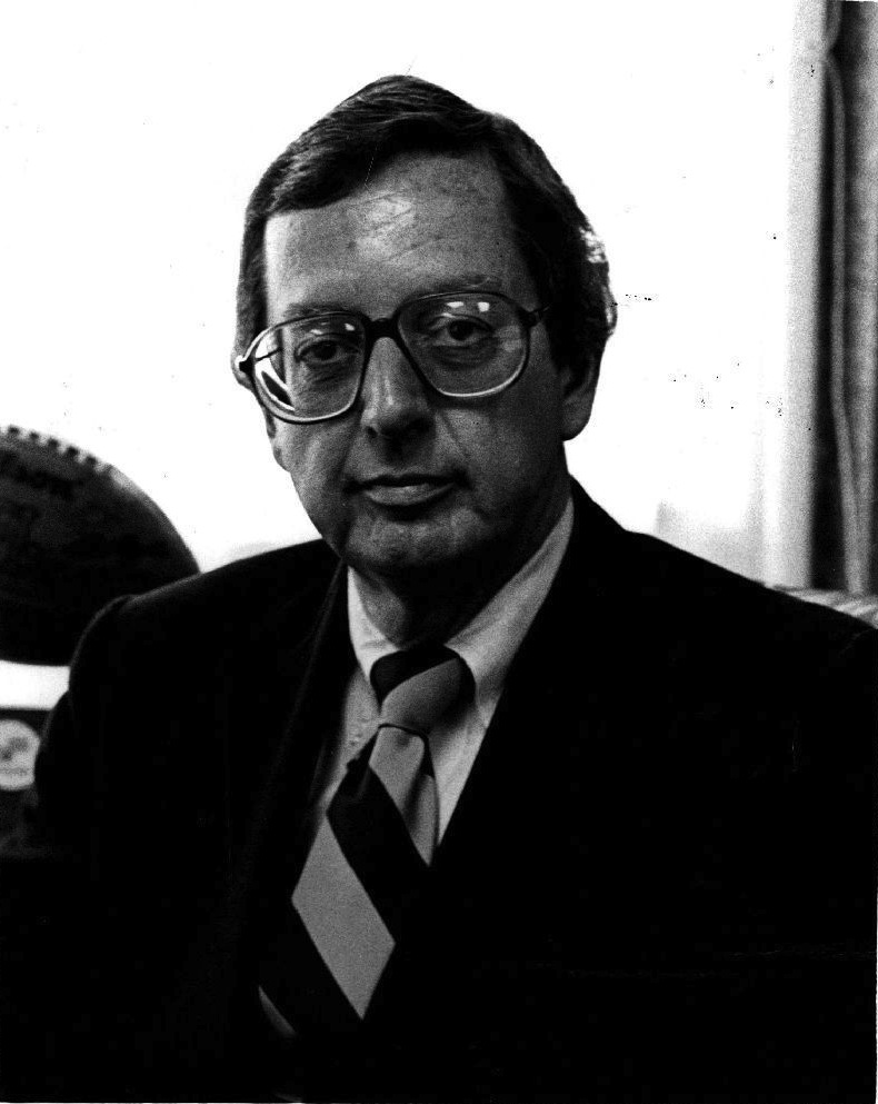 1977 Air Florida file photo of Board Chairman C. Edward Acker